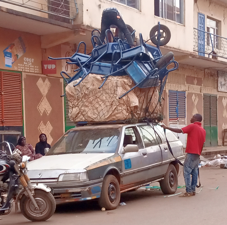 Taxi à kankan